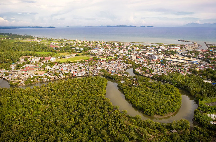 Calbayog from above